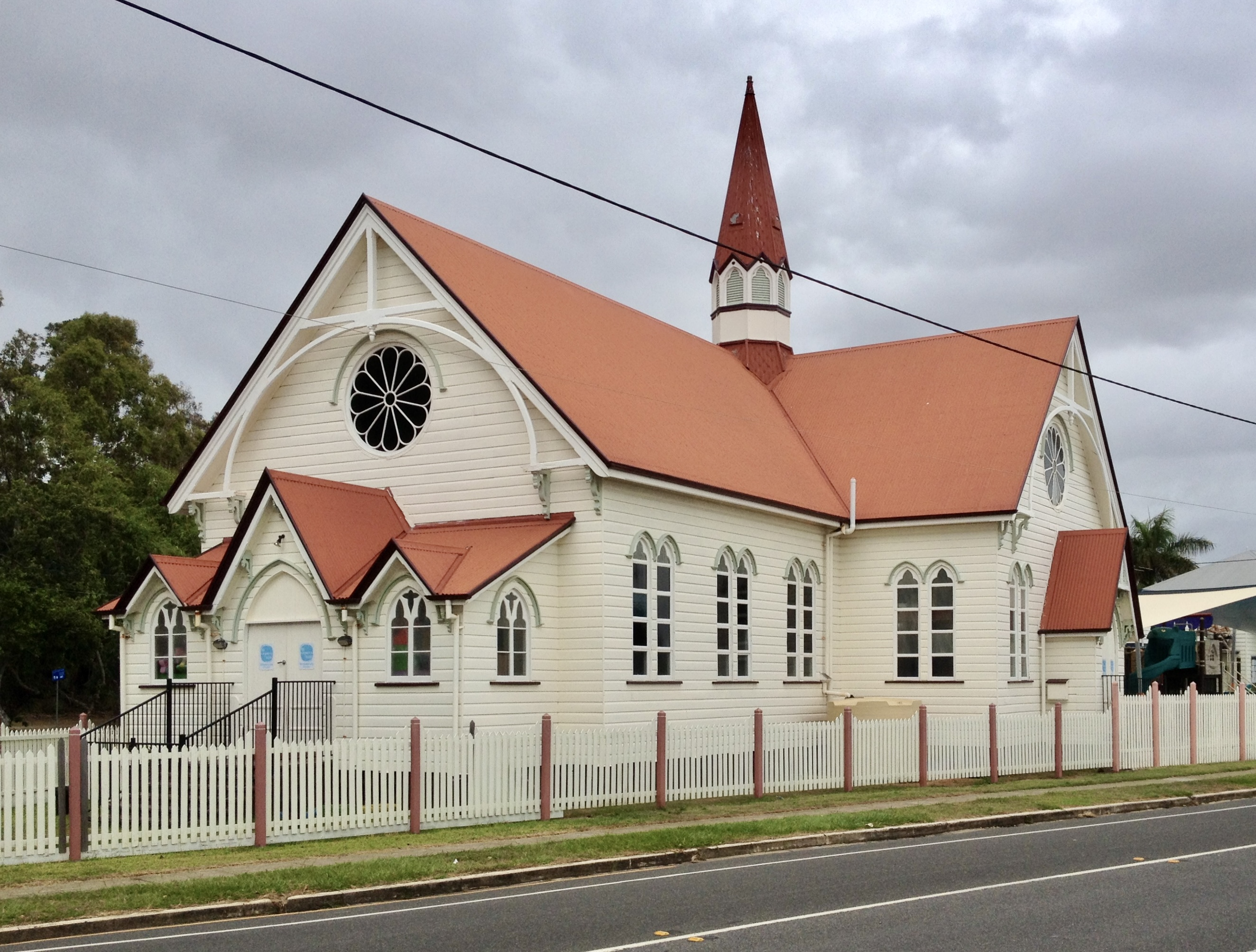 Former Baptist church (1887), at present Kids Childcare, at 6 Flinders Parade, Sandgate, Queensland